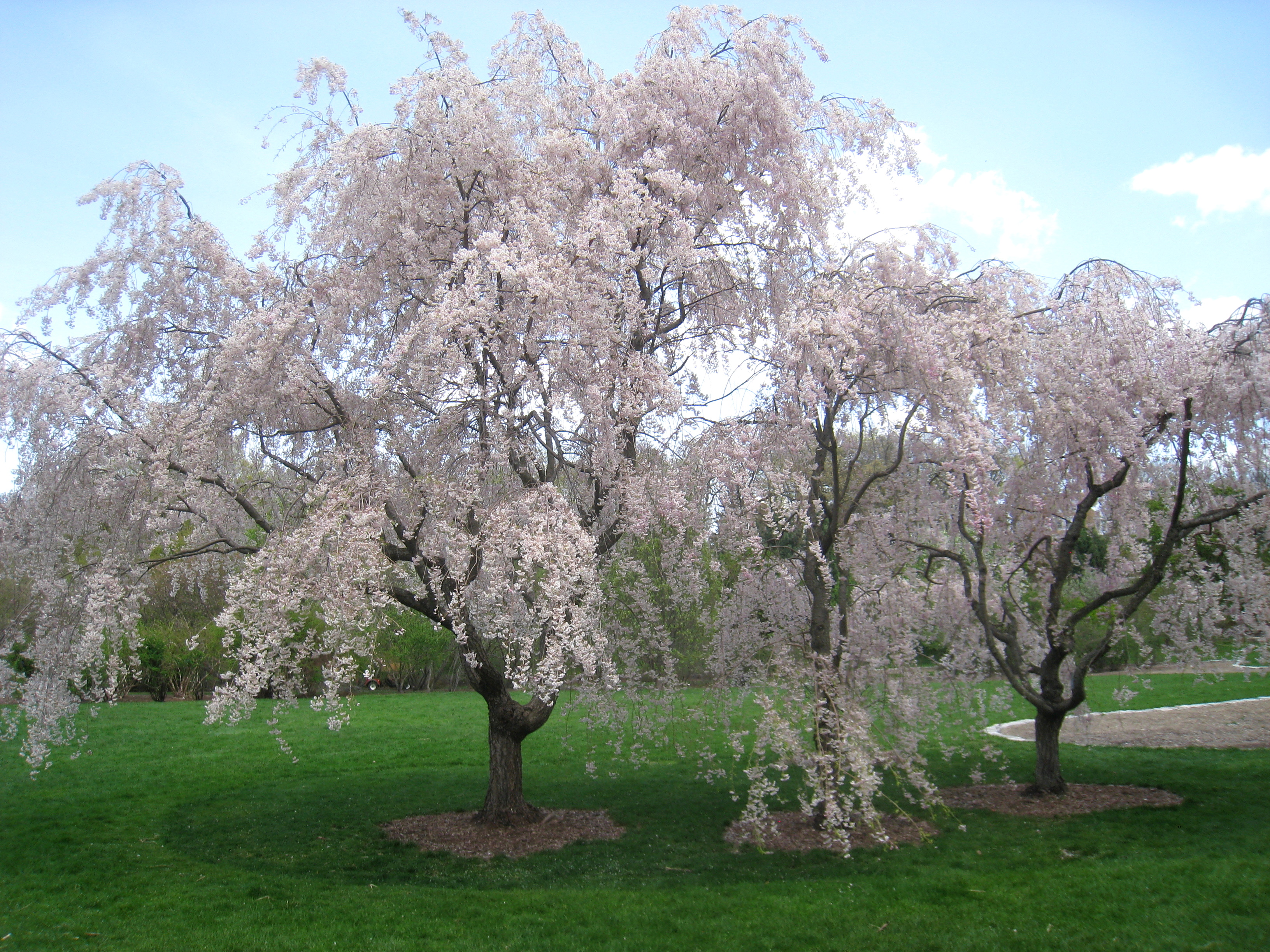 Prunus subhirtella 'Pendula', Arnold Arboretum, Jamaica Plain, Boston, Massachusetts, USA.